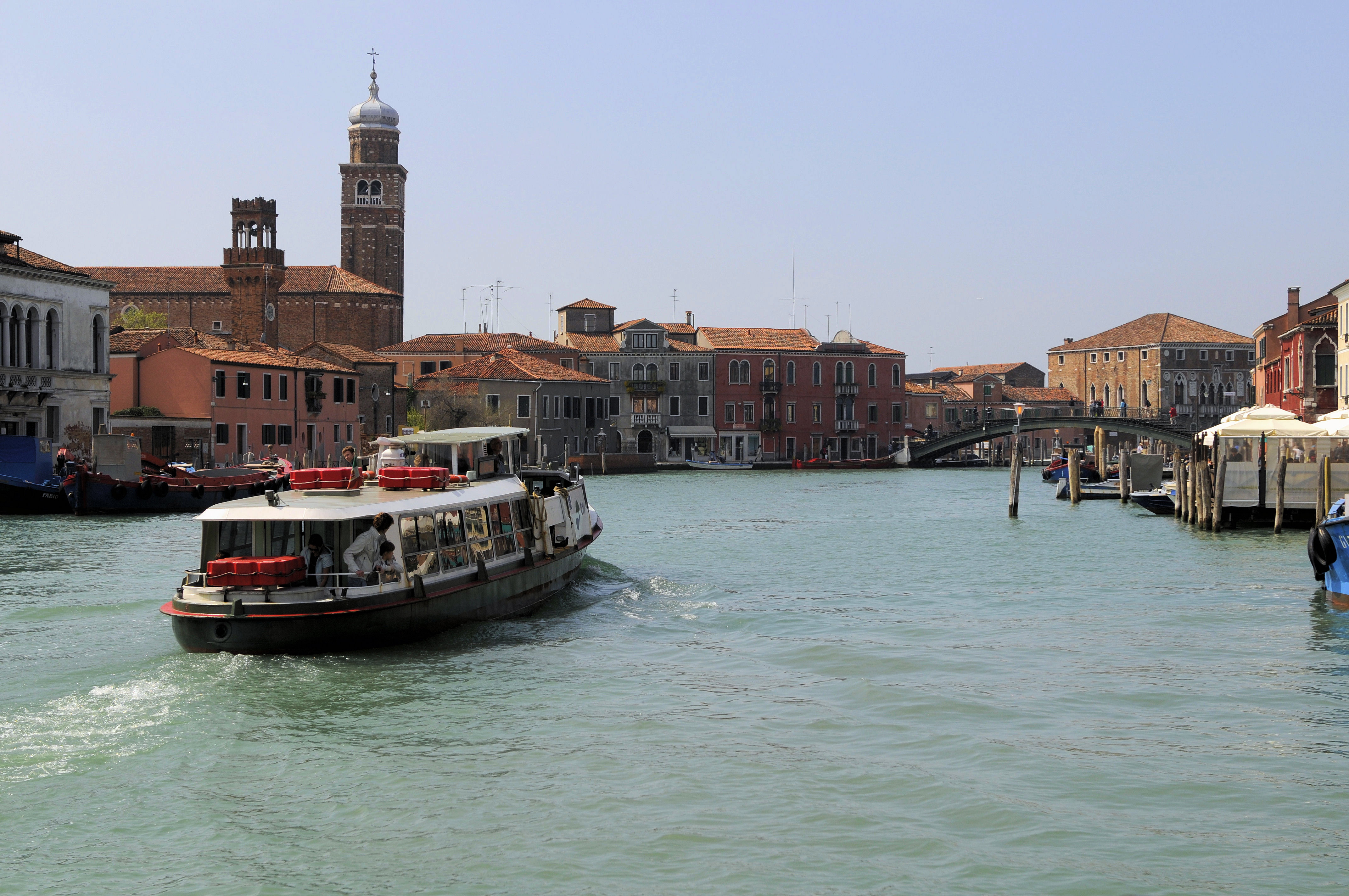 Vaporetto is a waterbus operation, they run almost constantly, and you'll seldom have to wait more than a few minutes for one to come along.